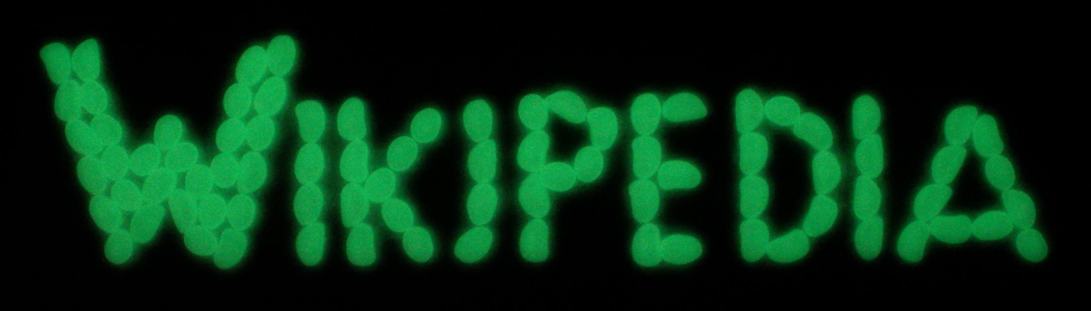 phosphorescent Wikipedia writing